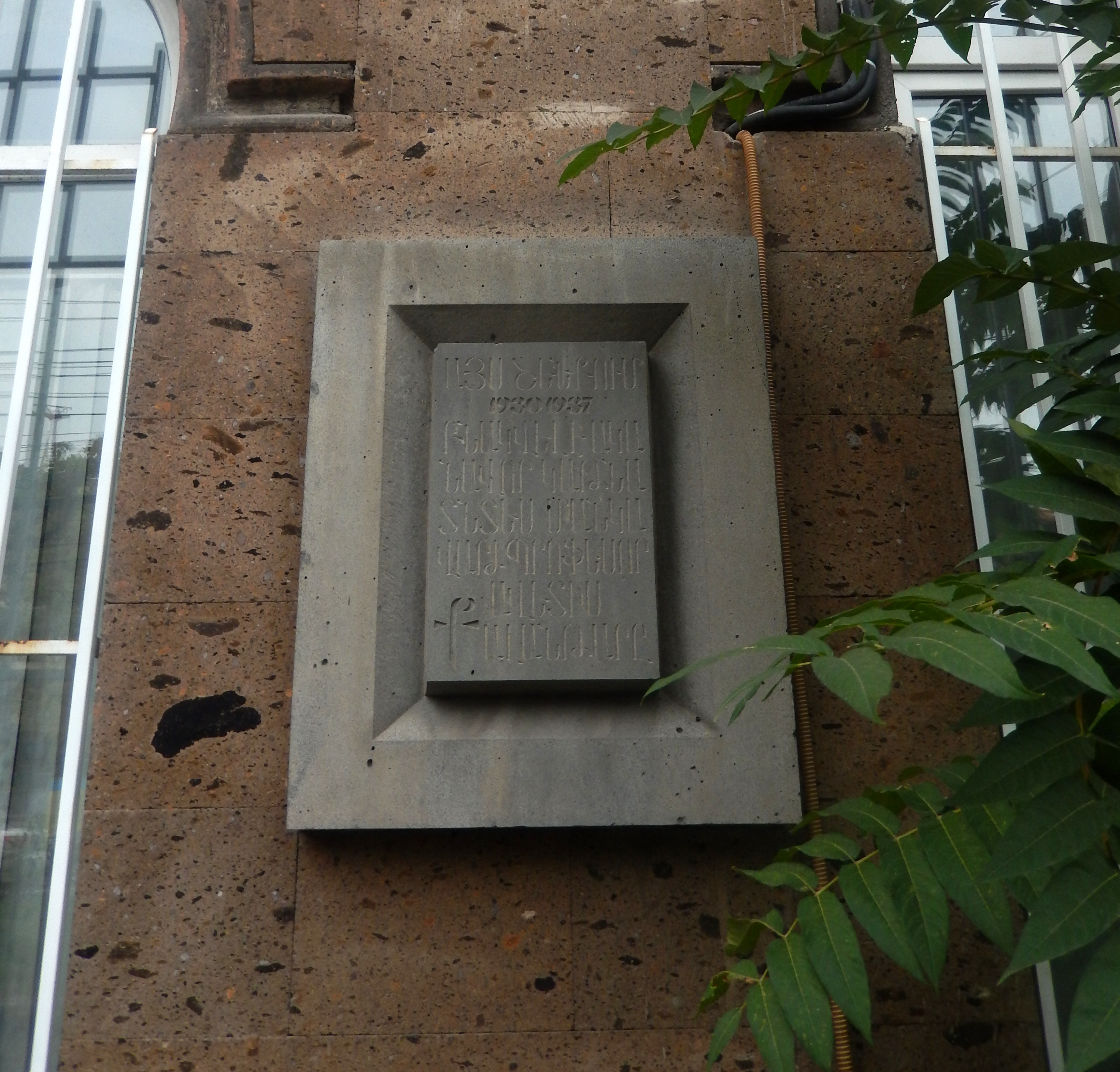 Plaque of Avetis Kalantar